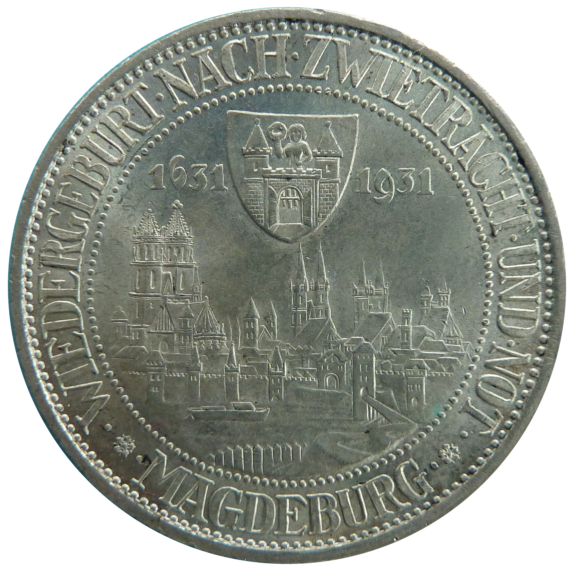 Averse of the commemorative coin "Magdeburg" of the Weimar Republic